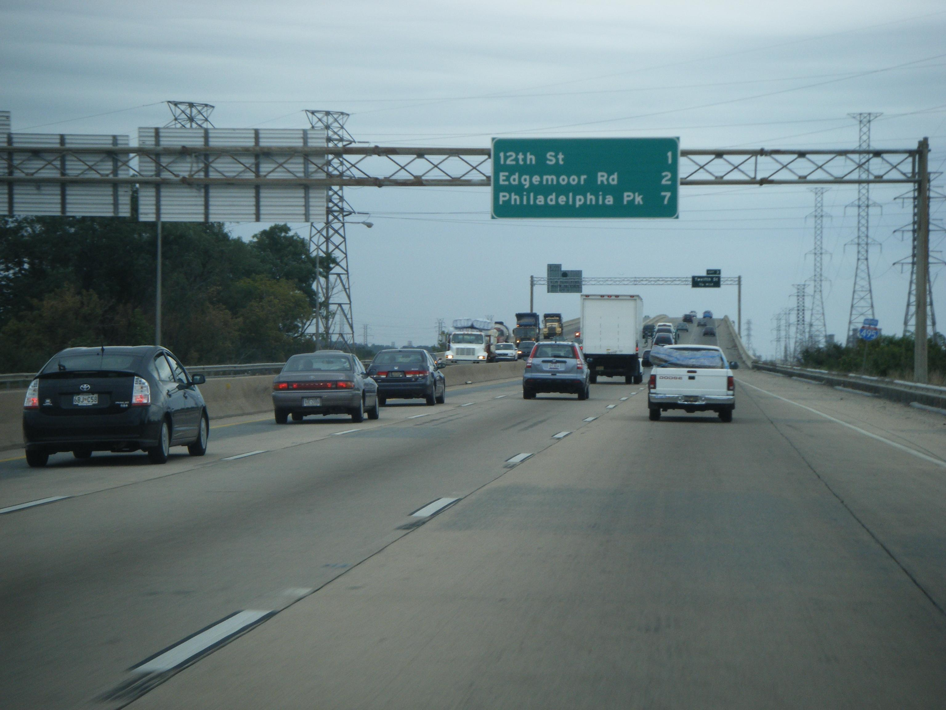 Northbound Interstate 495 1 mile from the interchange with Twelfth Street (exit 3) in Wilmington, Delaware with a list of upcoming exits.